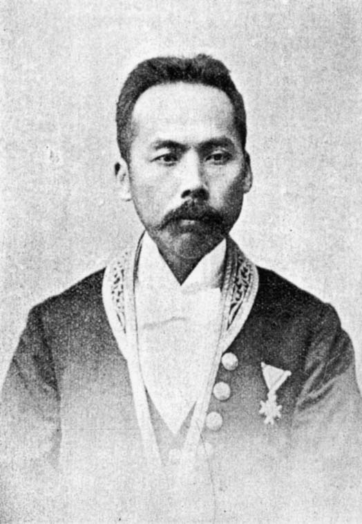 Mr. Yasuoki Noguchi, professor of the Women's Higher Normal School.